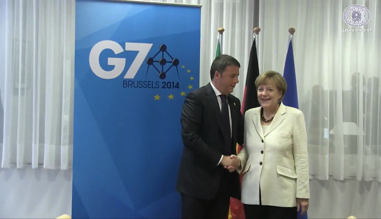 German Chancellor Angela Merkel and Italian Prime Minister Matteo Renzi during the 40th G7 summit in Brussels